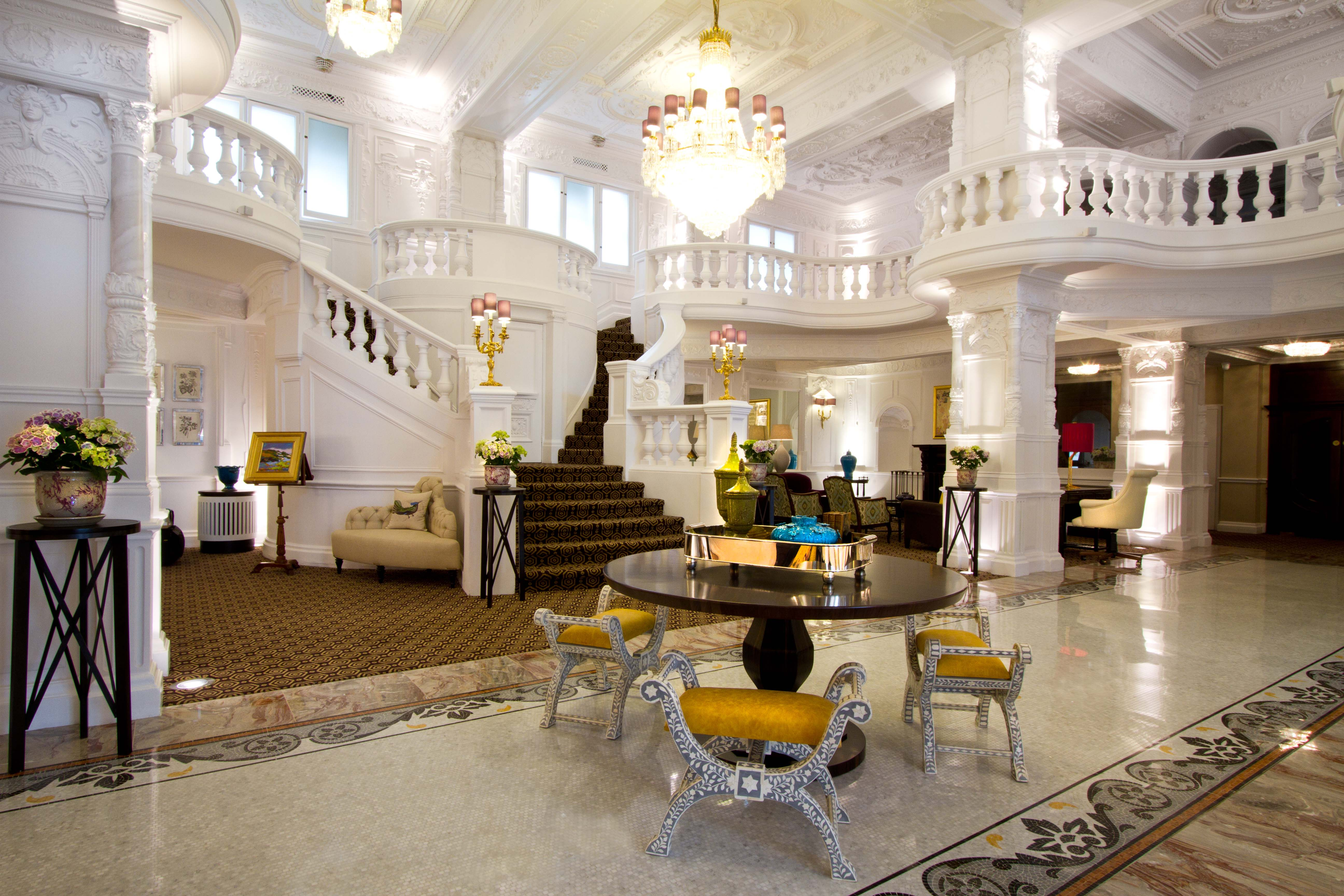 The newly restored lobby of the St Ermin's Hotel, St James's Park, London with theatrical undulating balcony, designed by JP Briggs. Late 19th. century.